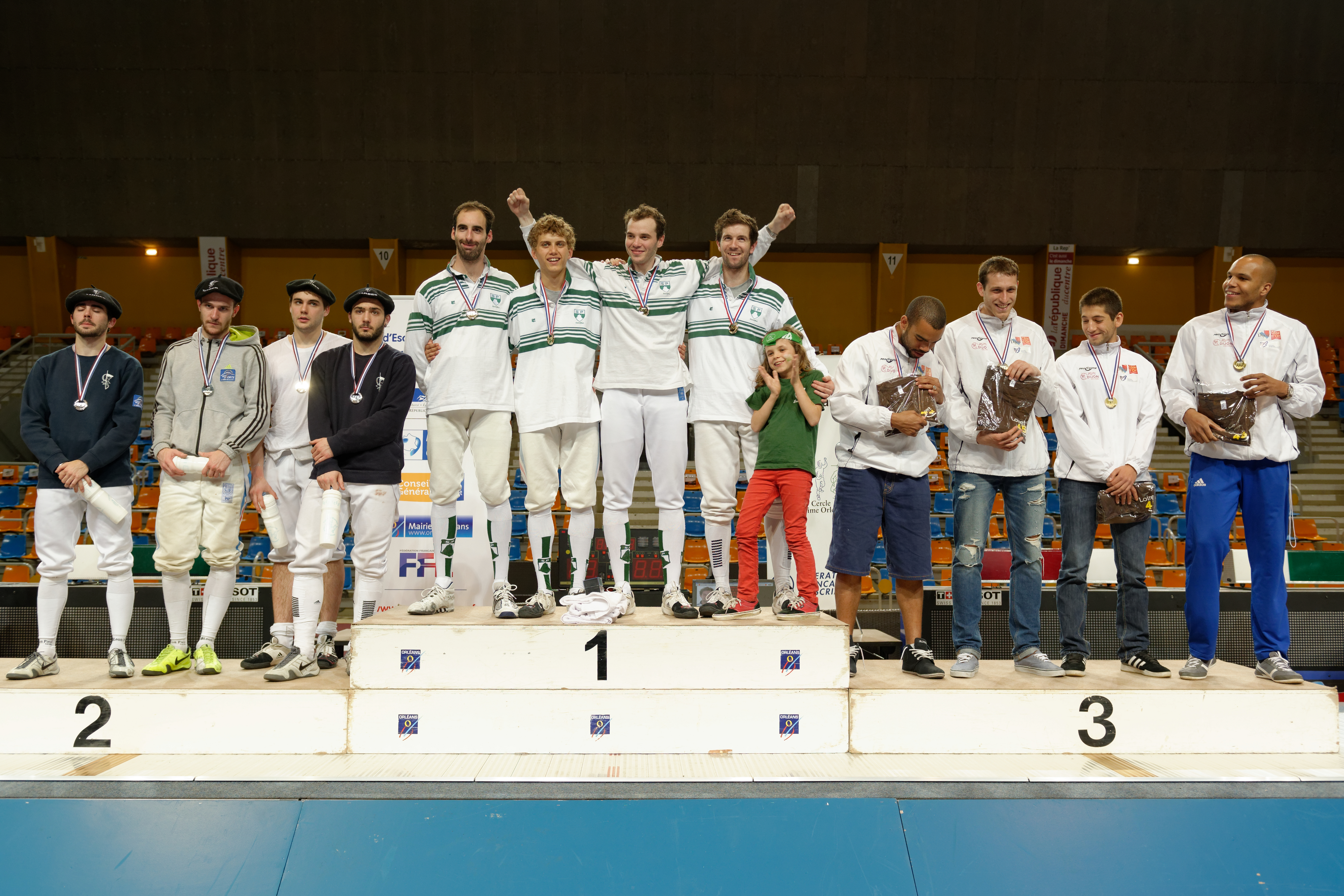 Men's team sabre podium in the French Fencing Championship; from left to right: Amicale tarbaise d'escrime, Section paloise, Dijon ASPTT. Palais des Sports in Orléans, 2013.